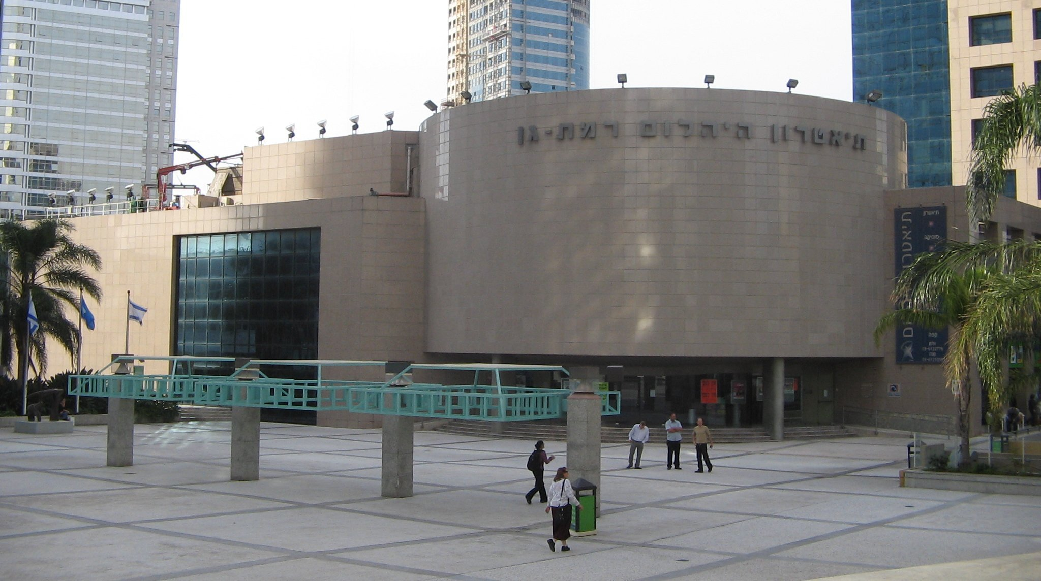 The Diamond Theatre